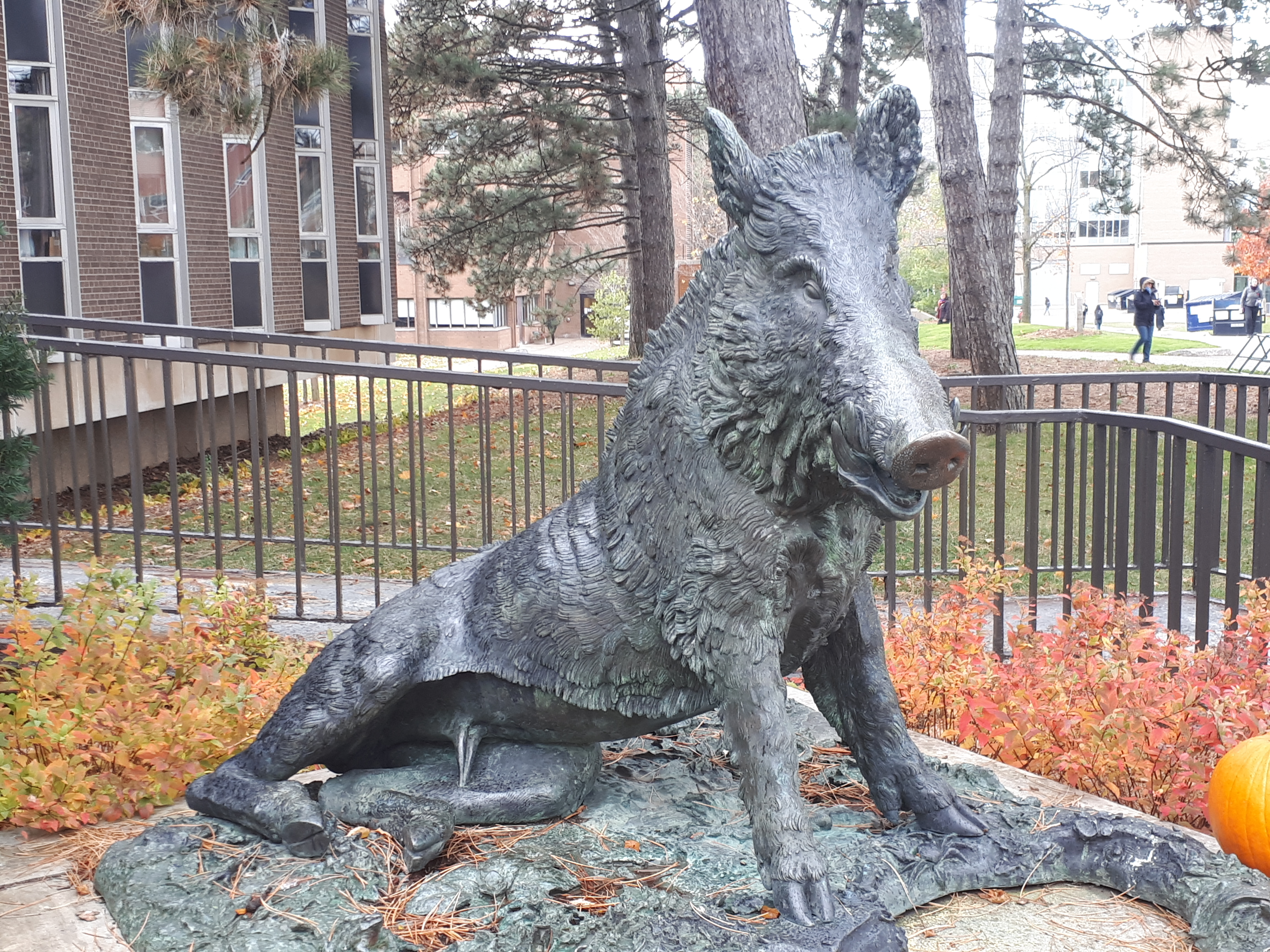 A picture of the copy of the Porcellino sculpture on the University of Waterloo campus. The bronze sculpture was donated by Dr. Henry Crapo. The Original is an ancient Greek marble sculpture which is now in a gallery in Florence; this casting was made in 1962 from a seventeenth-century mould, and is valued at $12,000 for insurance purposes. Porcellino, the mascot of the Arts Faculty, sits in front of the Modern Languages Building.